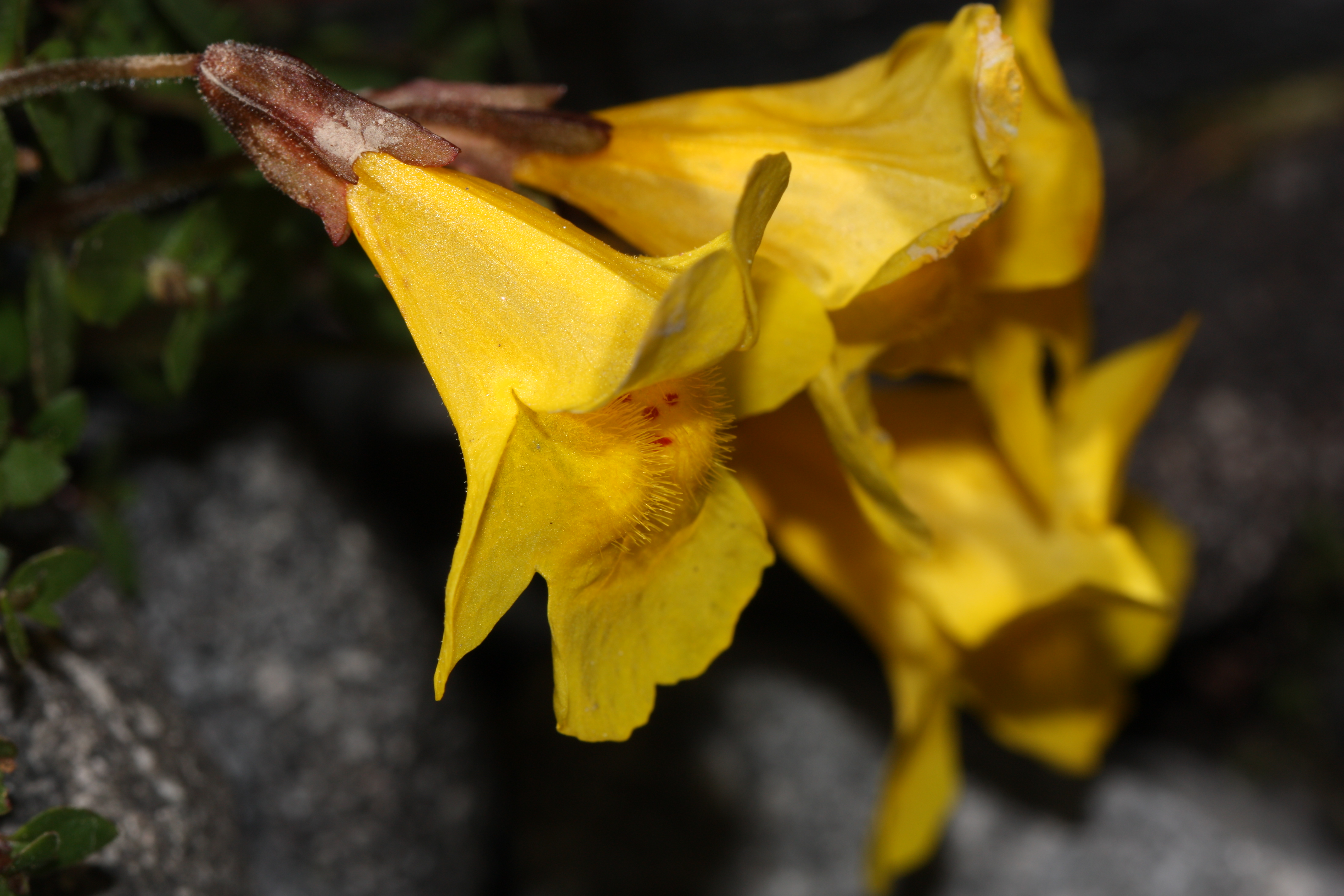 Large Mountain Monkey-flower